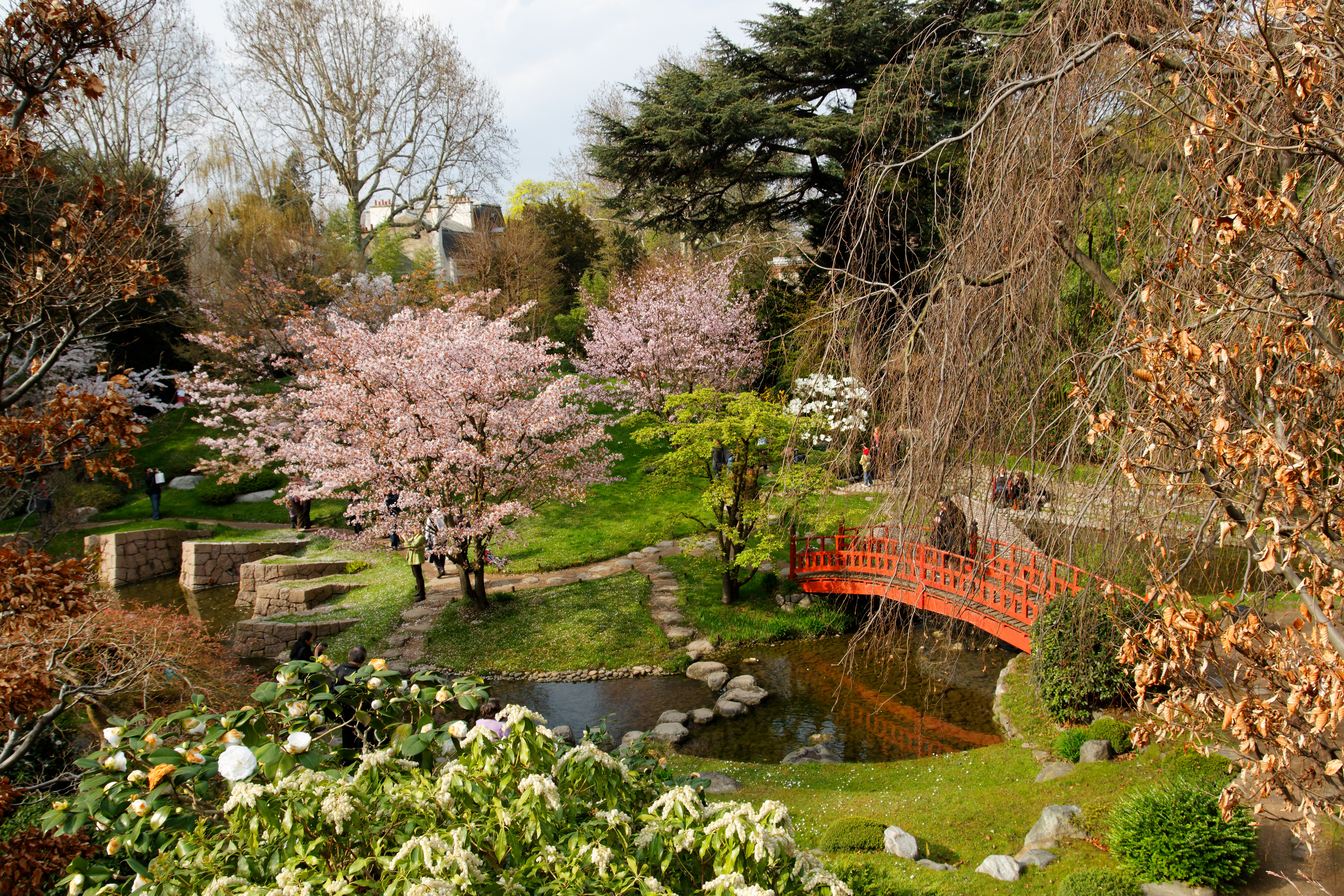 Albert Kahn museaum - Japanese garden - Cherry trees and Magnolias blooming - Boulogne Billancourt, France